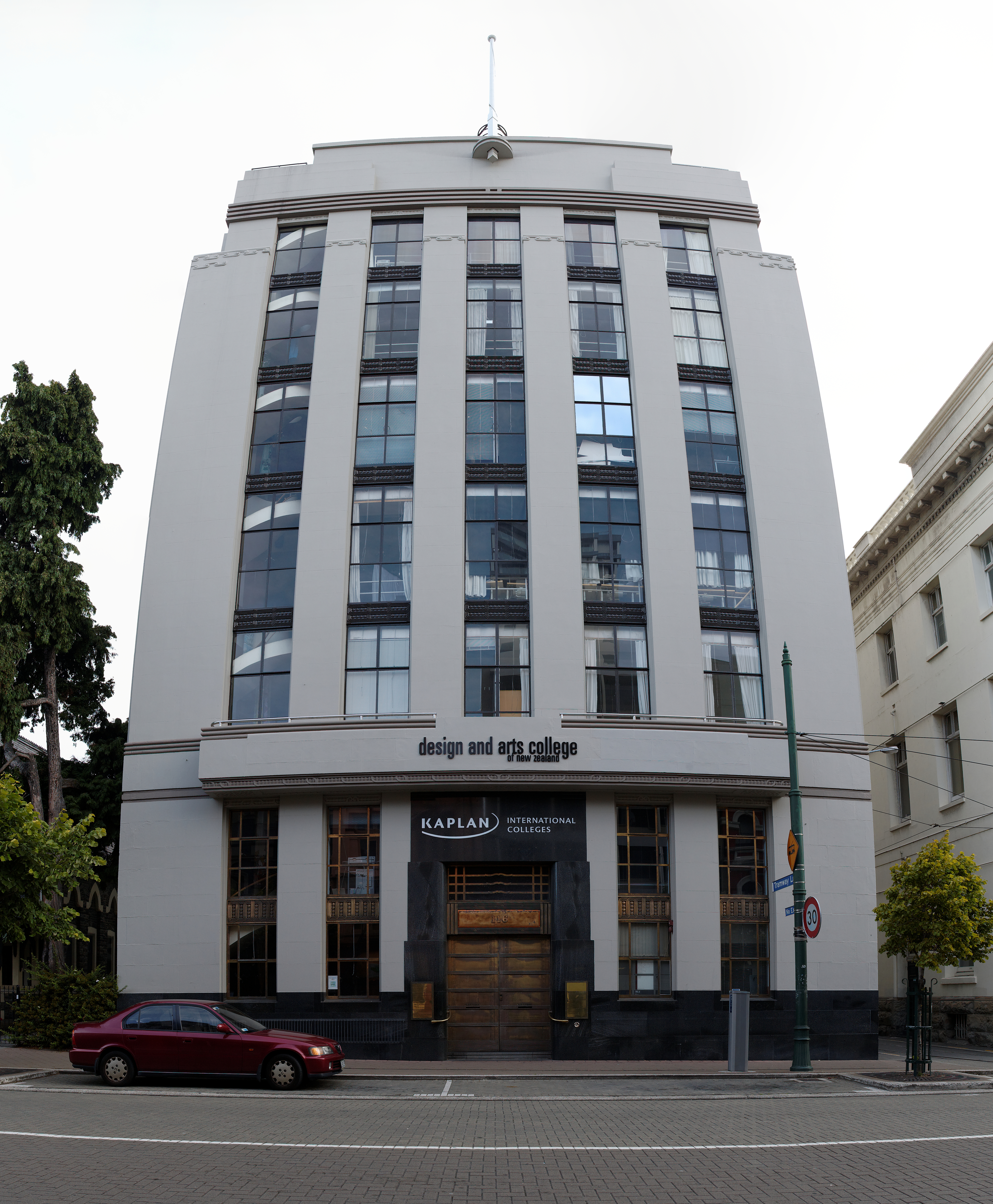 State Insurance Building , 116 Worcester Street, CHRISTCHURCH